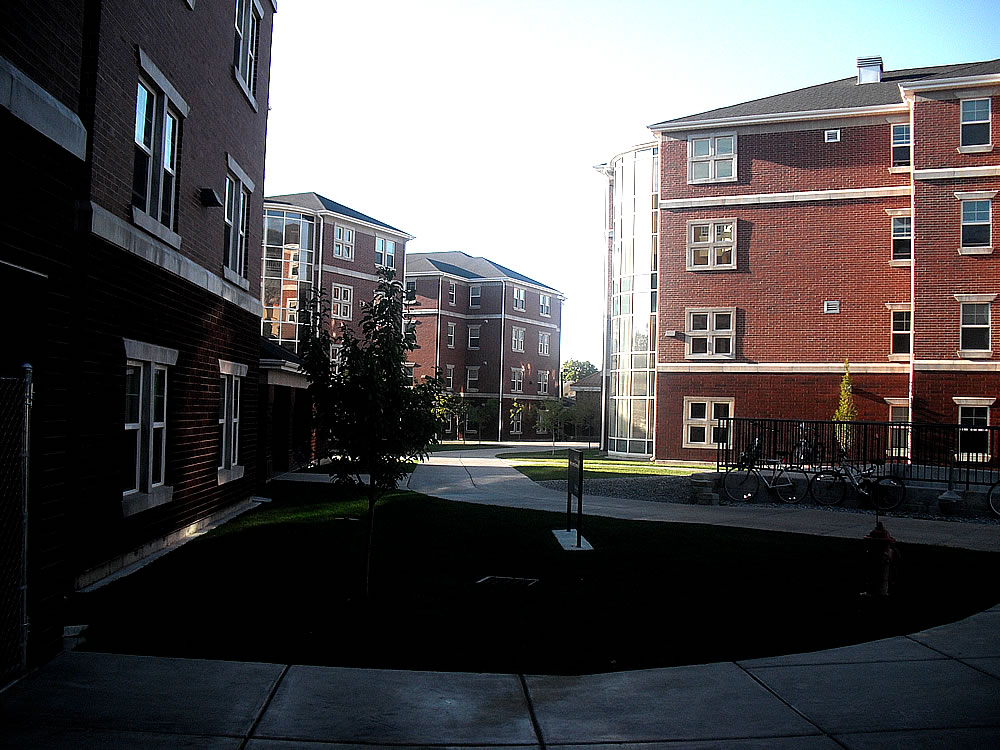 Dorms on Utah State University's Campus in Logan, Utah